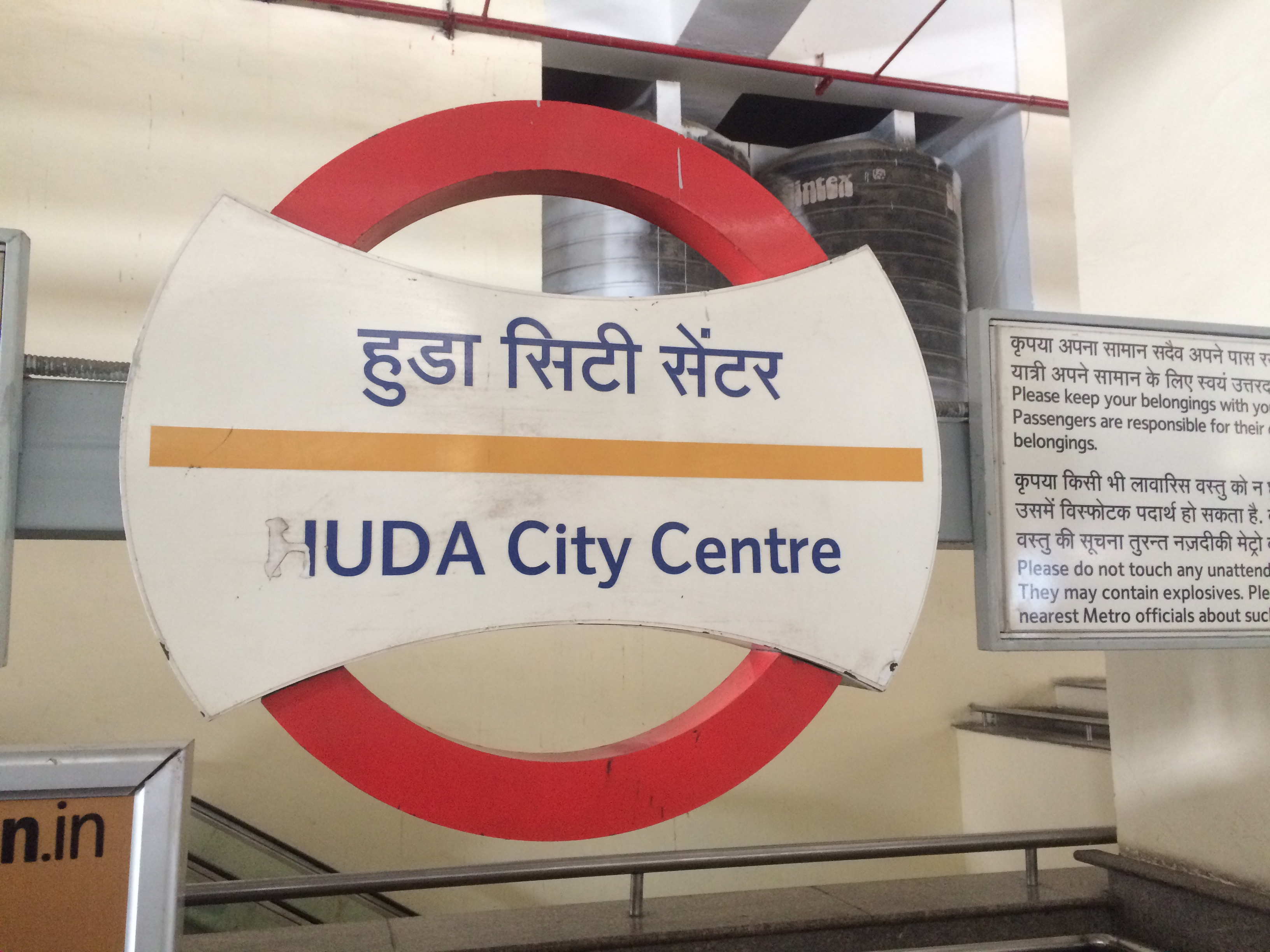 HUDA City Centre metro station - Platform board